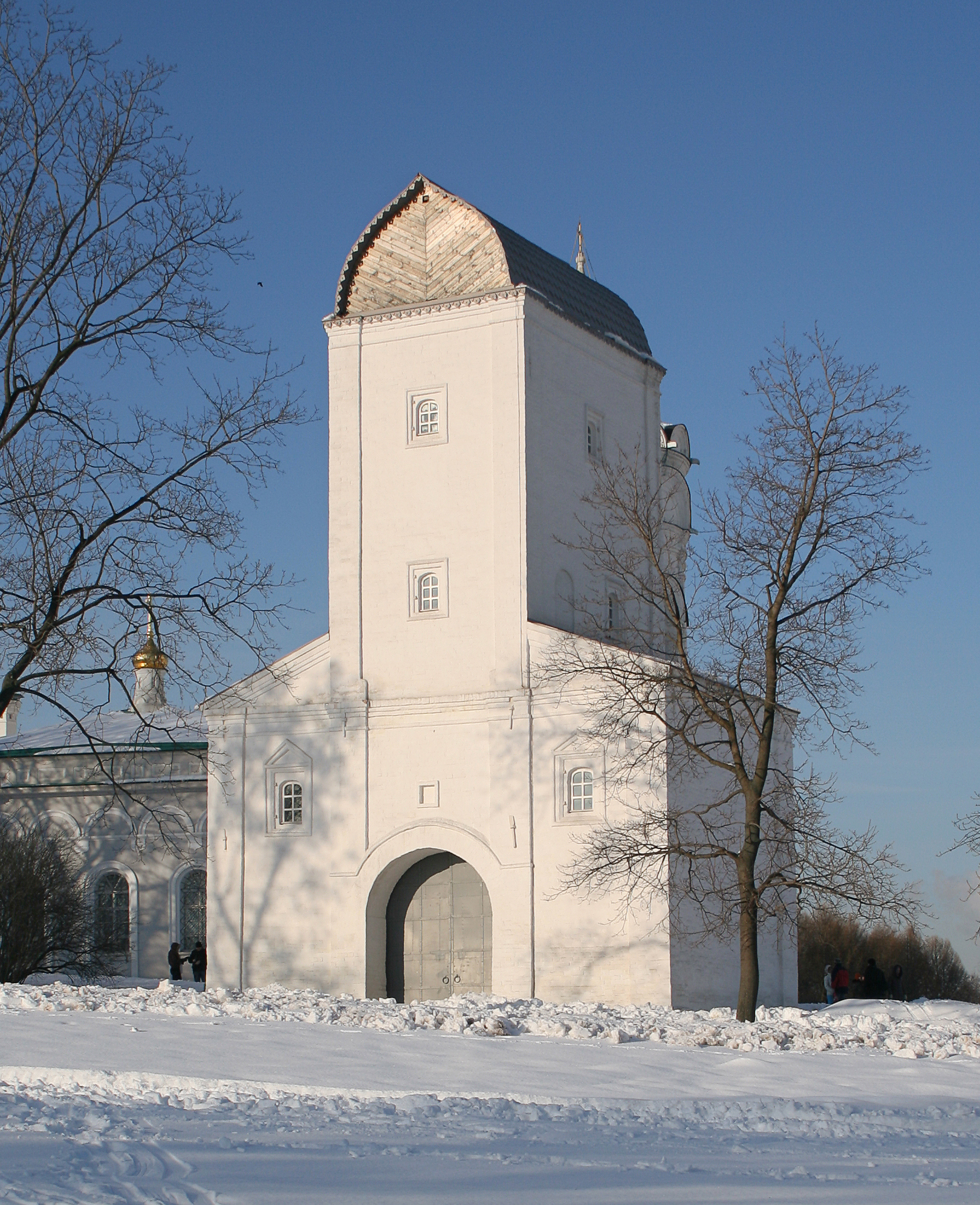 Water inlet tower in Kolomenskoe, XVII c, Moscow